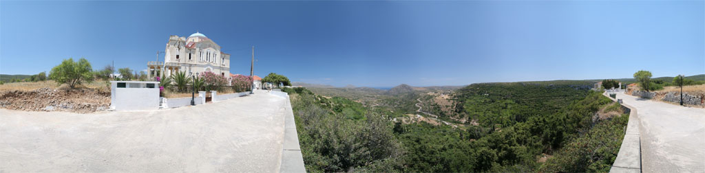 A Panoramic view taken at Mitata, Kythira. The village church, severely damaged from the January 2006 earthquake as well as the gorge are main parts of this picture.